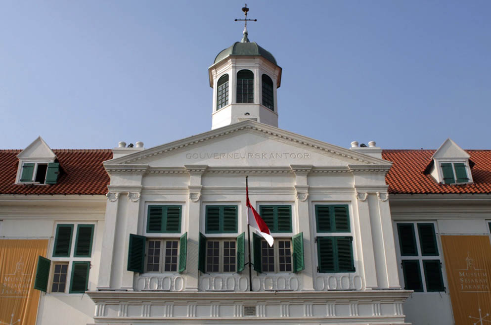 Museum Fatahilah, ex-VOC governor's palace, Jakarta